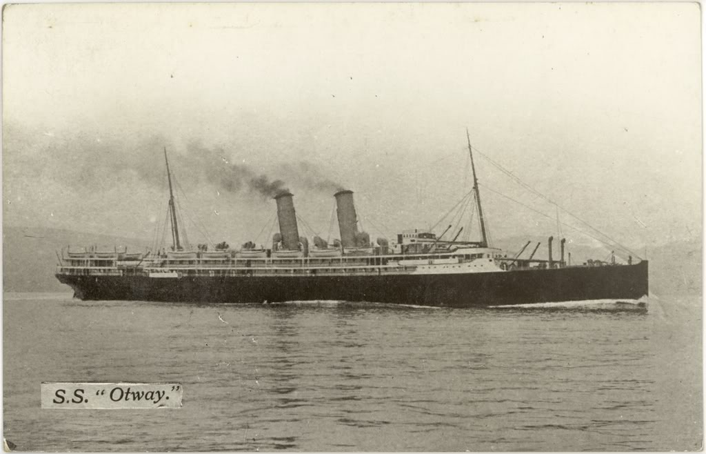 SS Otway